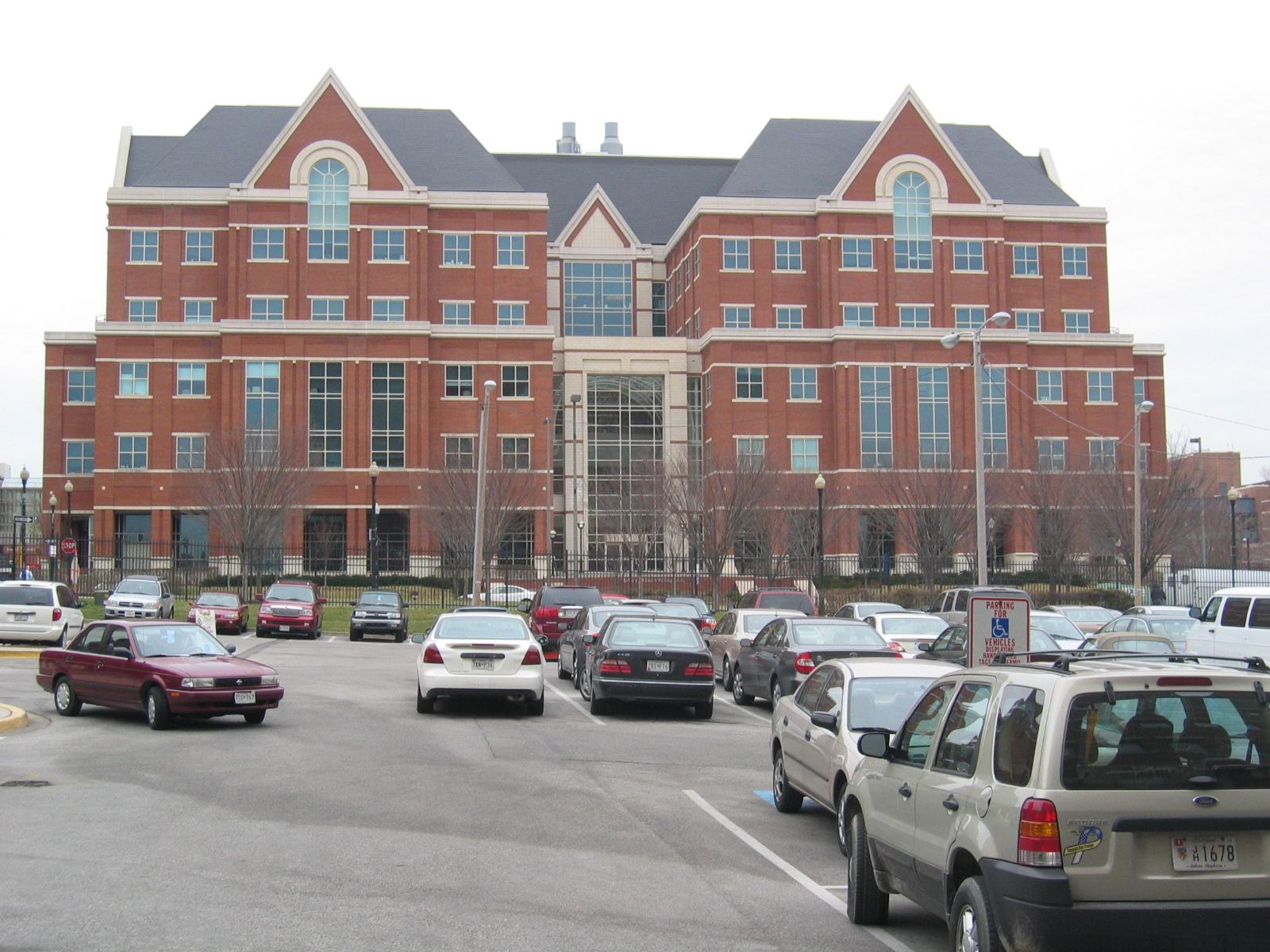 The Harry Jeanette Weinberg building, for inpatient and outpatient service.